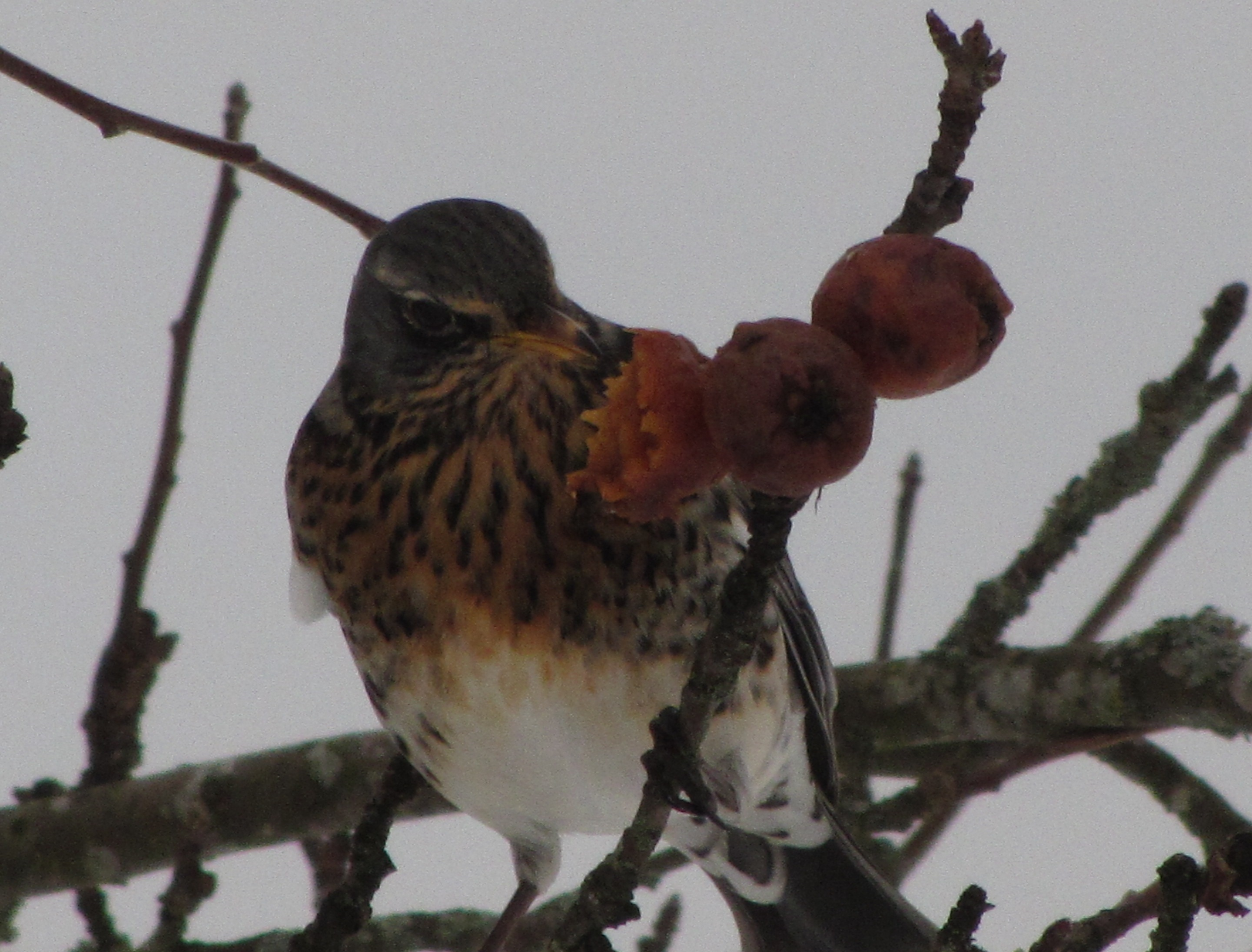 A bird in the winter.